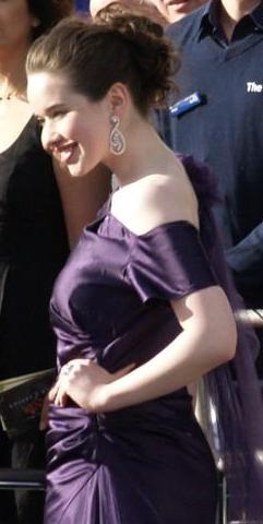 Anna Popplewell at the premiere of The Chronicles of Narnia: Prince Caspian